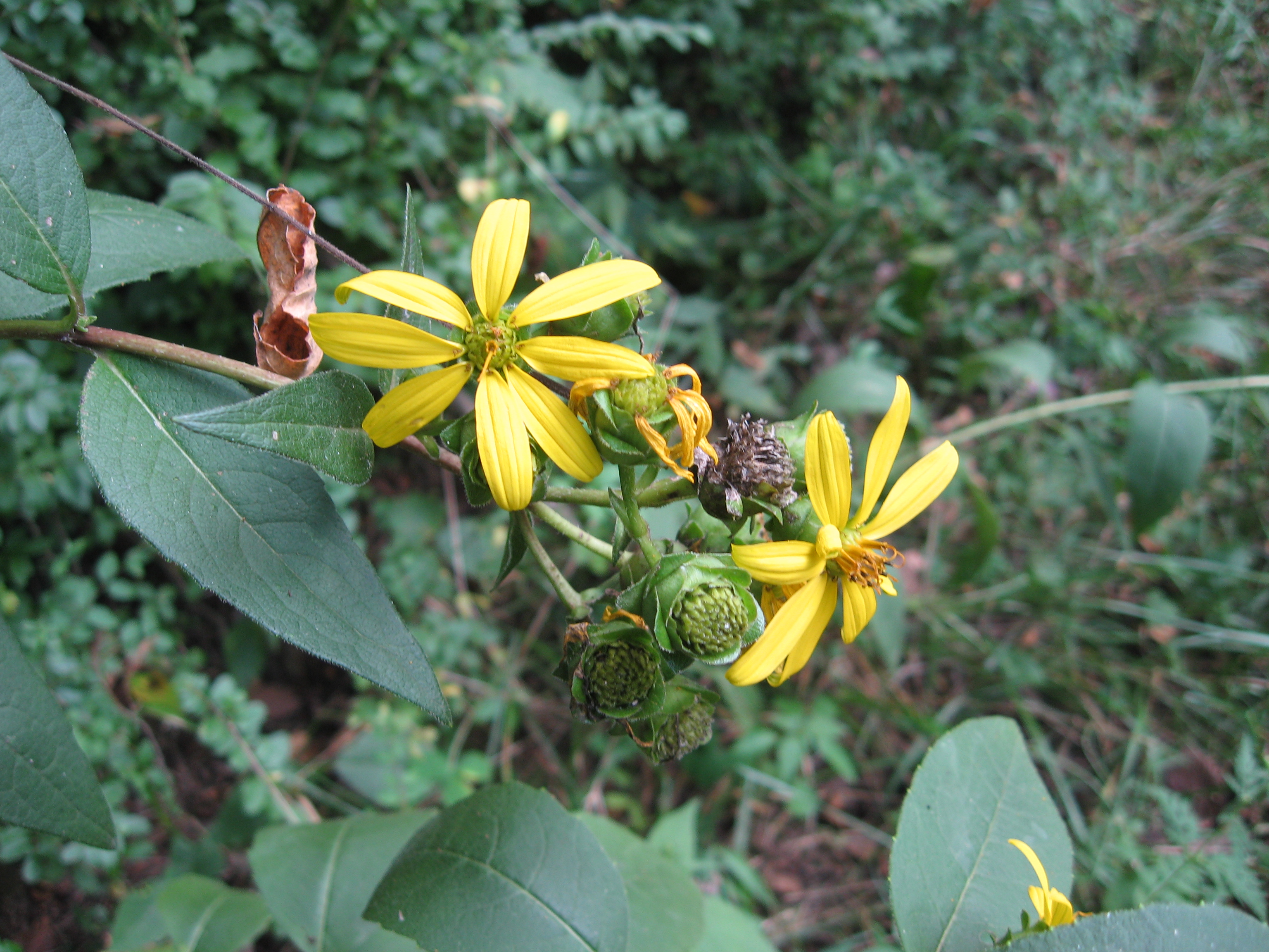 Silphium asteriscus var. asteriscus. Bluffs of the Tennessee River, Loudon County, Tennessee.